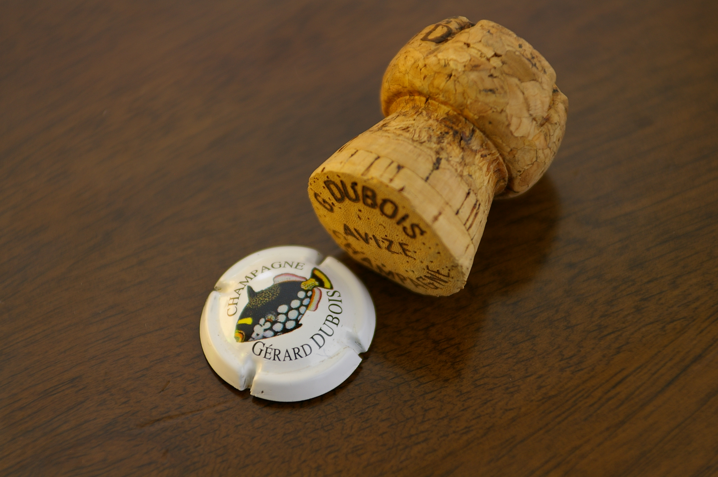 A sample of two types of Champagne closures.